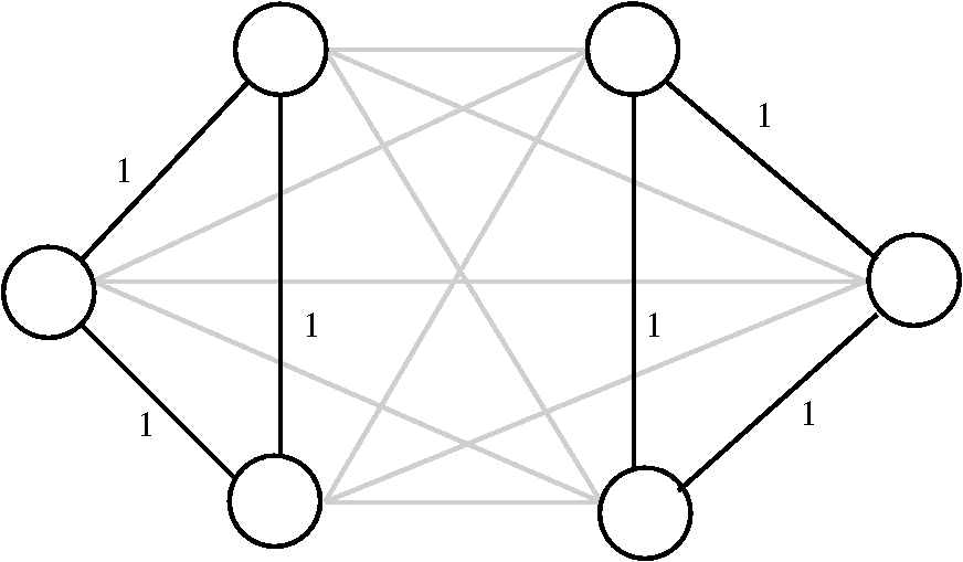 This figure illustrates short cycles (subtours) in the Symmetric Traveling Salesman Problem: each node has one incoming and one outgoing link, but it's not a tour through all nodes.